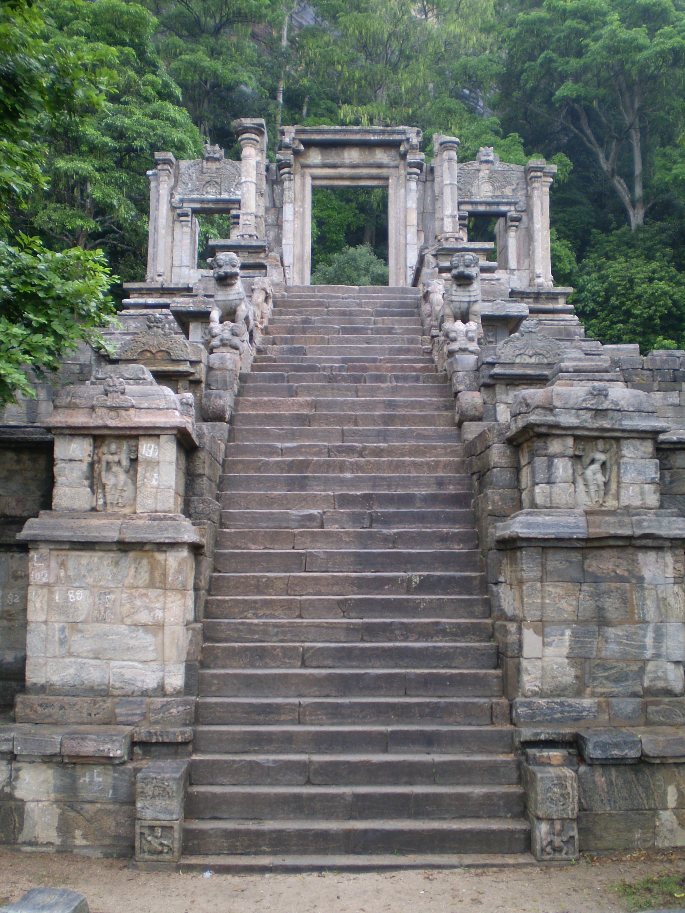 A view of the Buddhist Yapahuwa rock fortress complex Staircase in Sri Lanka. This fortress was the site of the Kingdom of Dambadeniya located here at Yapahuwa.